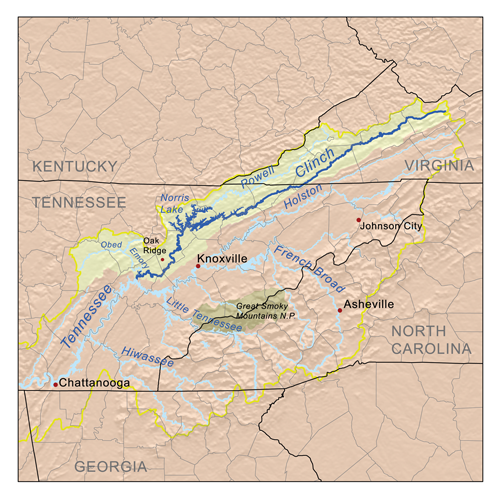 Map of the Clinch River watershed.